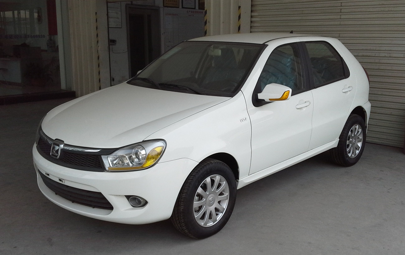 Zotye Z200 HB photographed in Chengdu, Sichuan province, China.